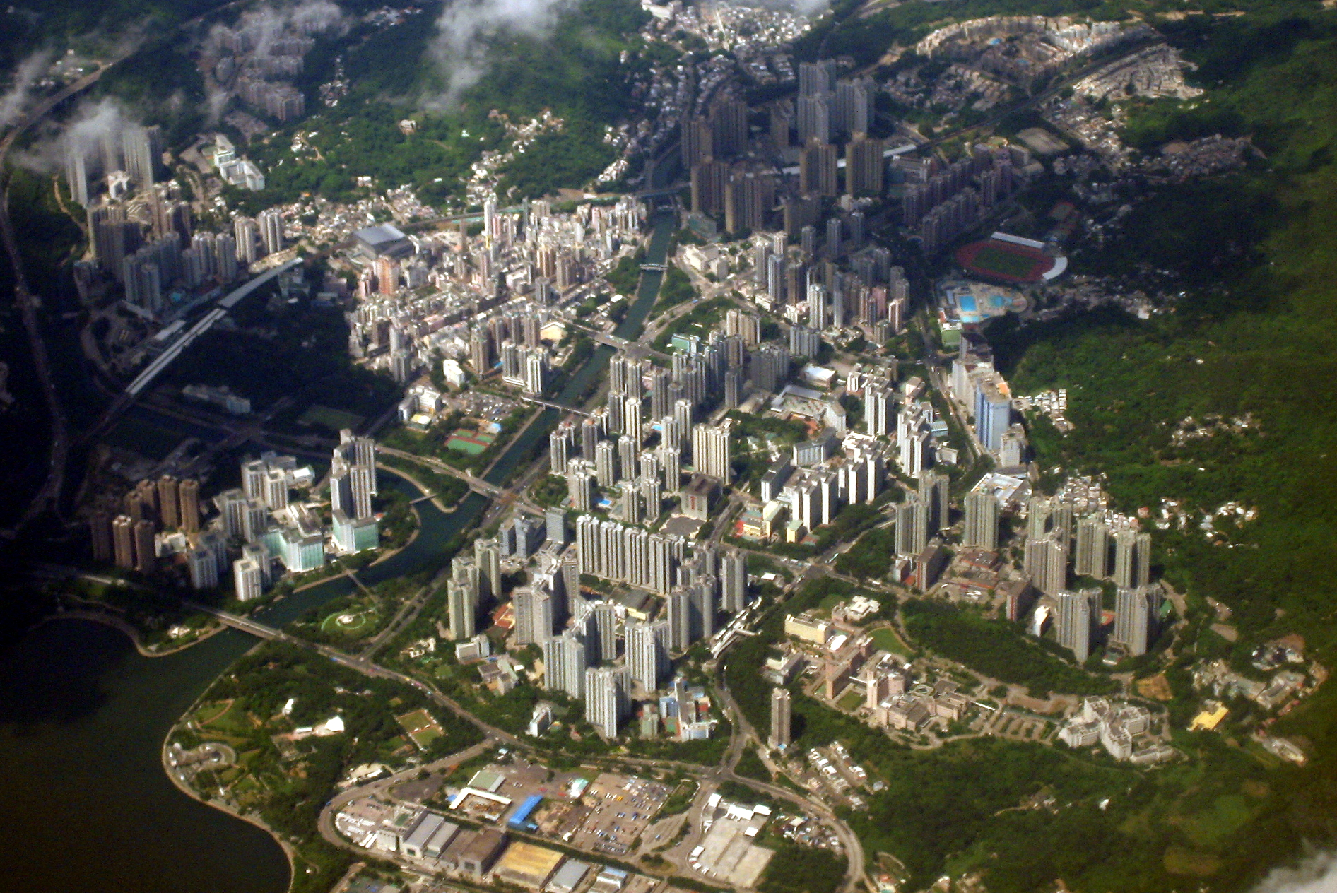 The view of Tai Po New Town, taken from a Airbus A340 during departure.